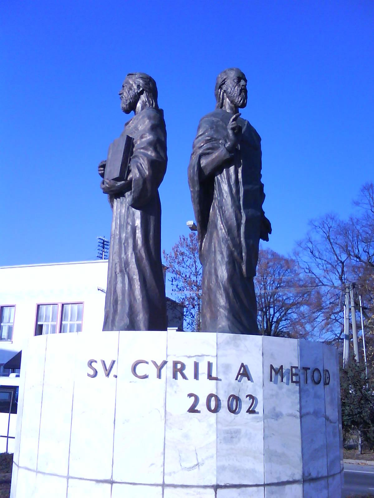 Sculpture of St. Cyril and Methodius in Sečovce